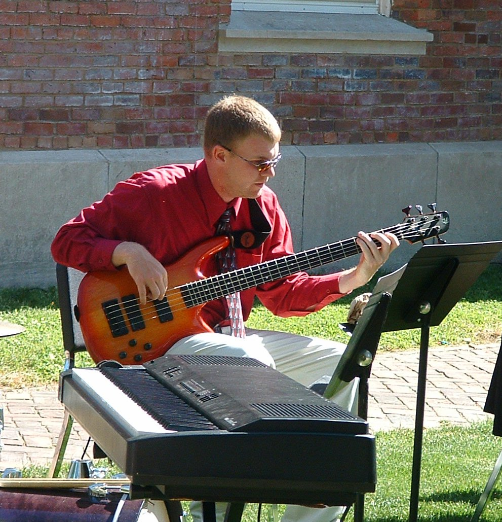 A musician warming up on a five-stringed electric bass guitar. Photograph taken June 3, 2006 in Galesburg, Illinois.